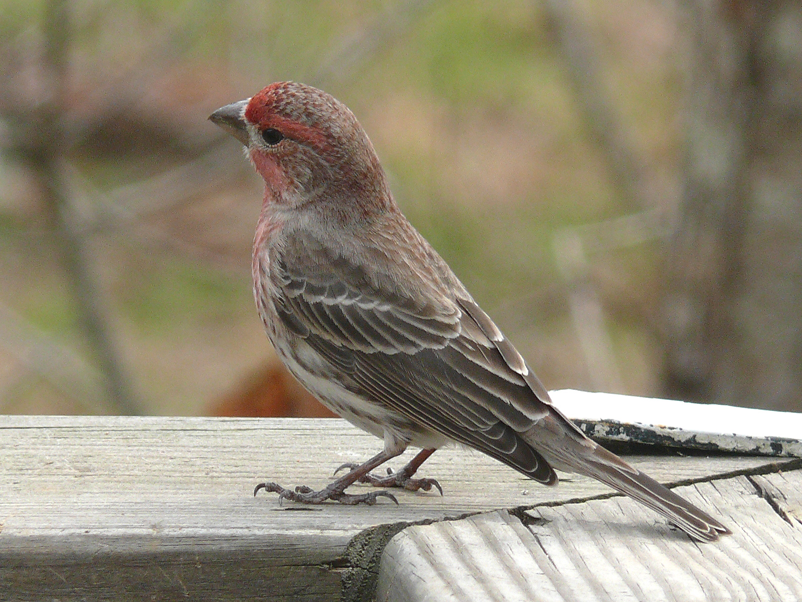 A male House Finch (Carpodacus mexicanus) perched on a wooden rail. Photo taken with a Panasonic Lumix DMC-FZ50 in Johnston County, North Carolina, USA.